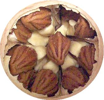 Portion of File:Sapucaia.jpg showing seeds and arils of Lecythis zabucajo